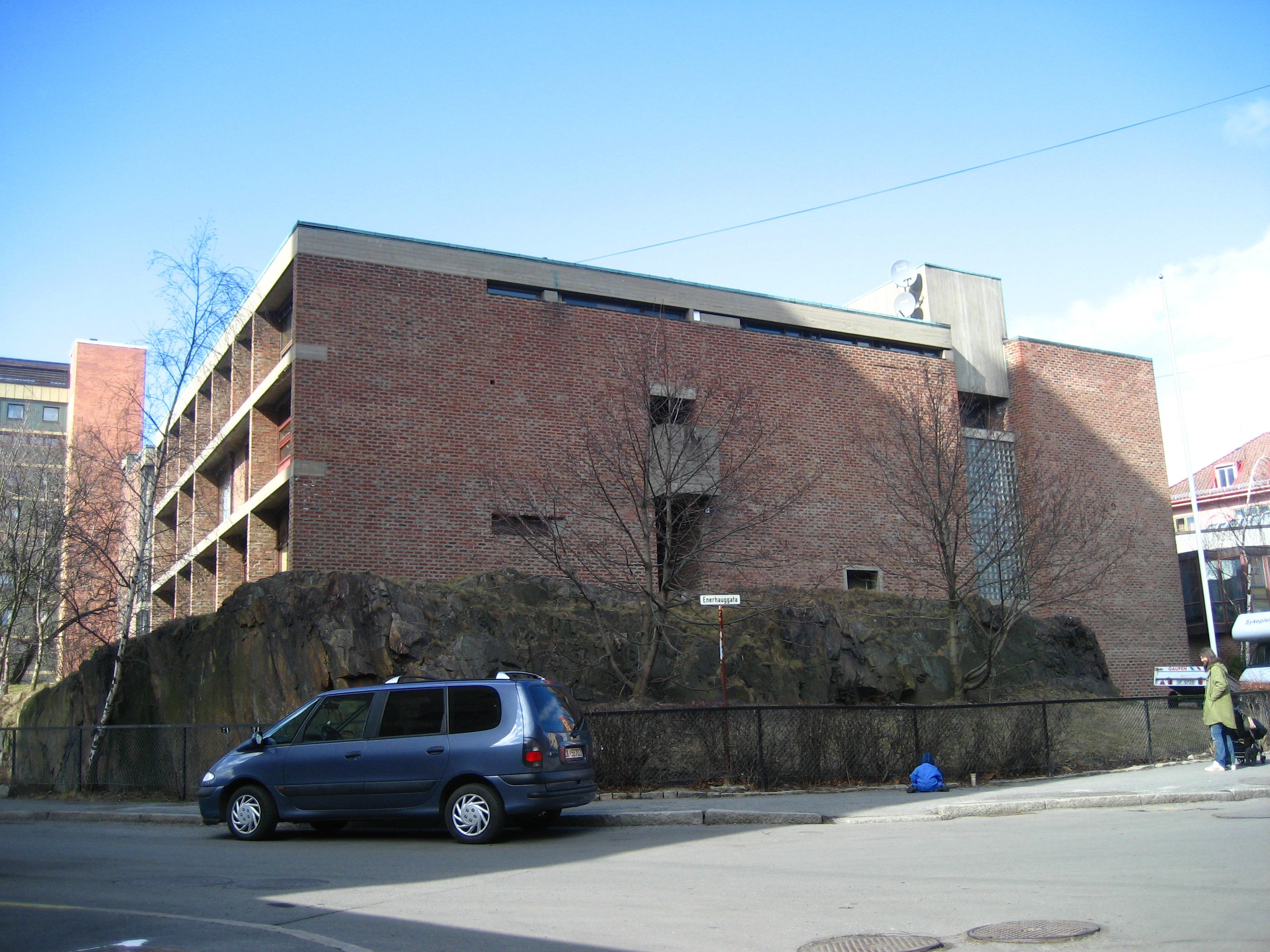 St. Hallvard's Church in Oslo